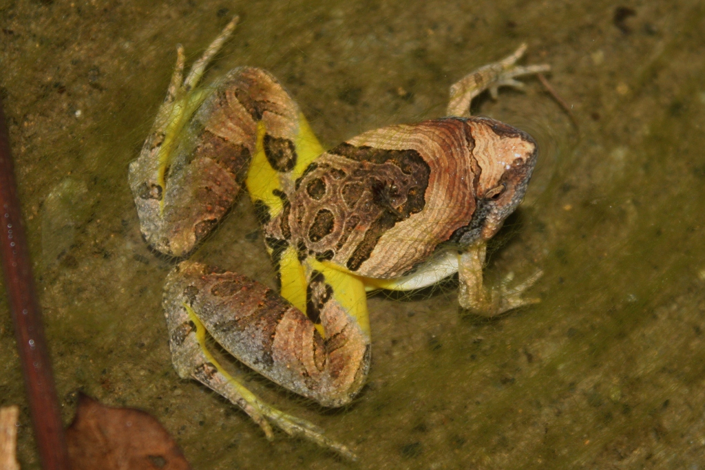 Found in a storm drain on Tai Mo Shan.